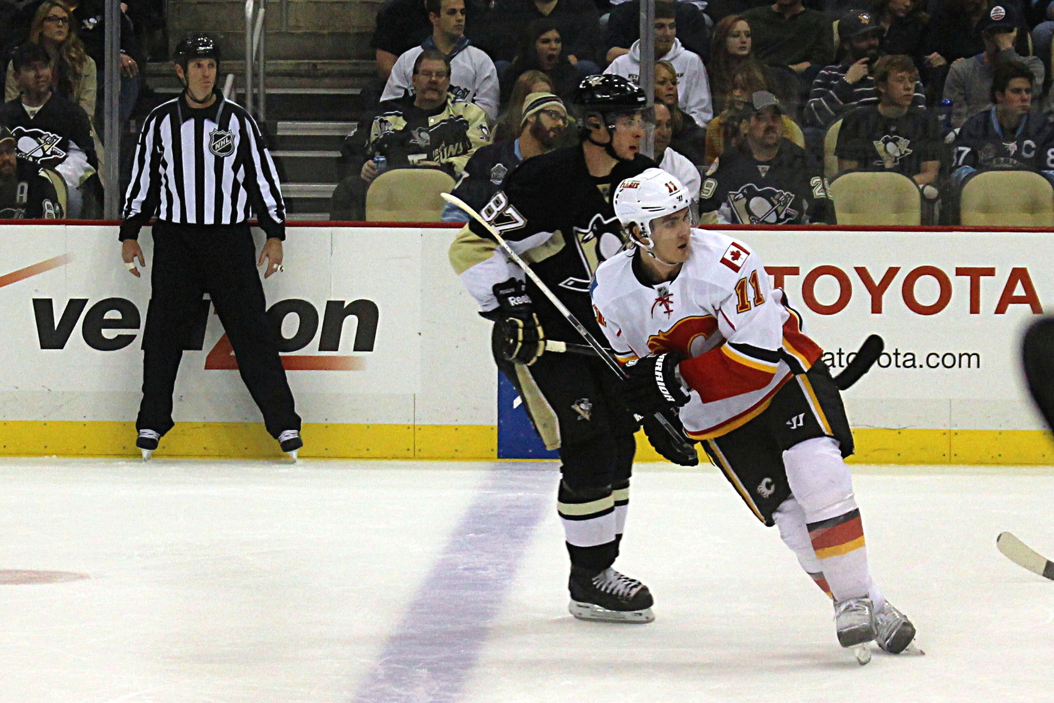 Calgary Flames forward Mikael Backlund during a December 21, 2013, game against the Pittsburgh Penguins at Consol Energy Center in Pittsburgh, PA.